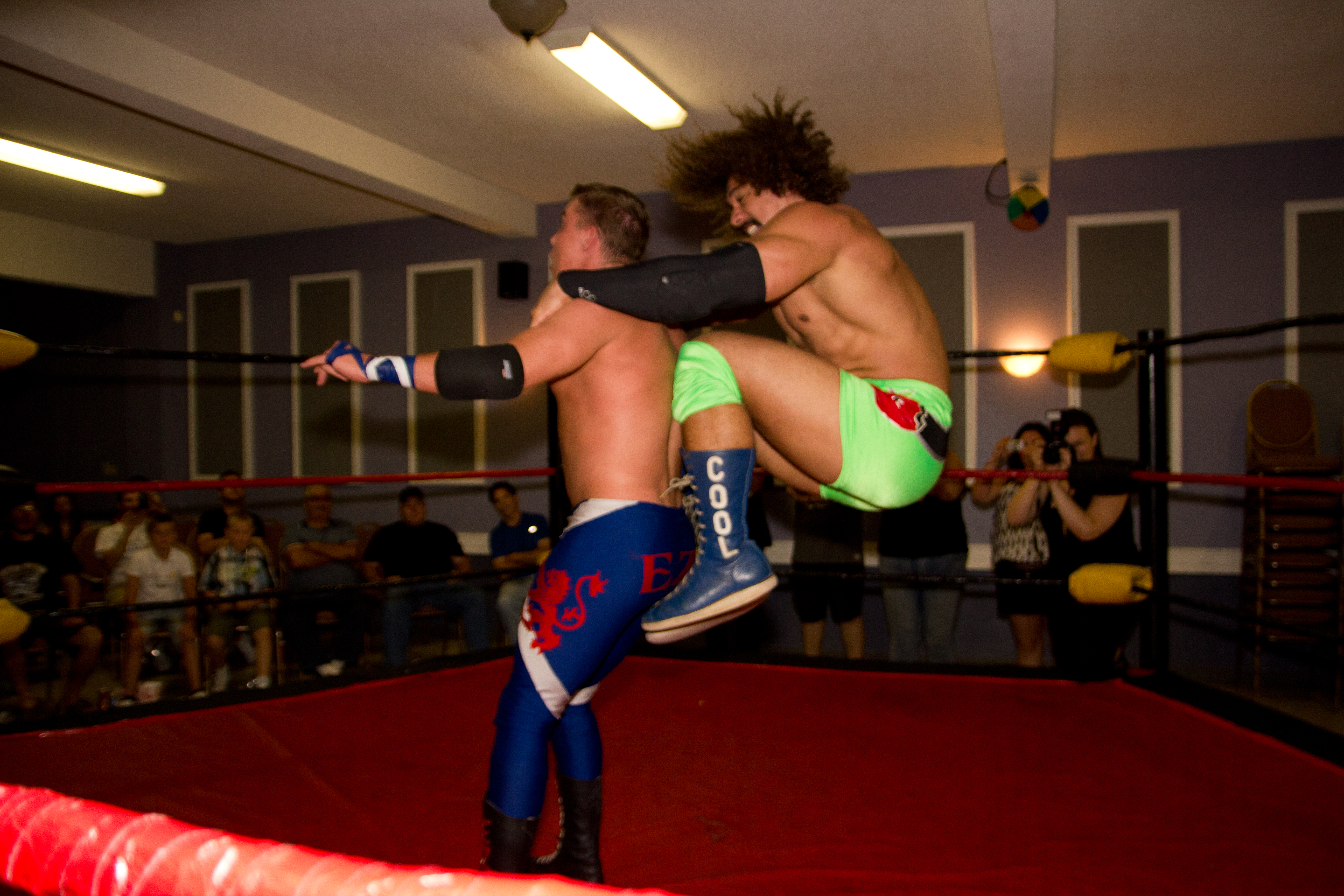 Carlito executing his "backstabber" (double knee backbreaker) finisher on "EZE" Eric Cairnie